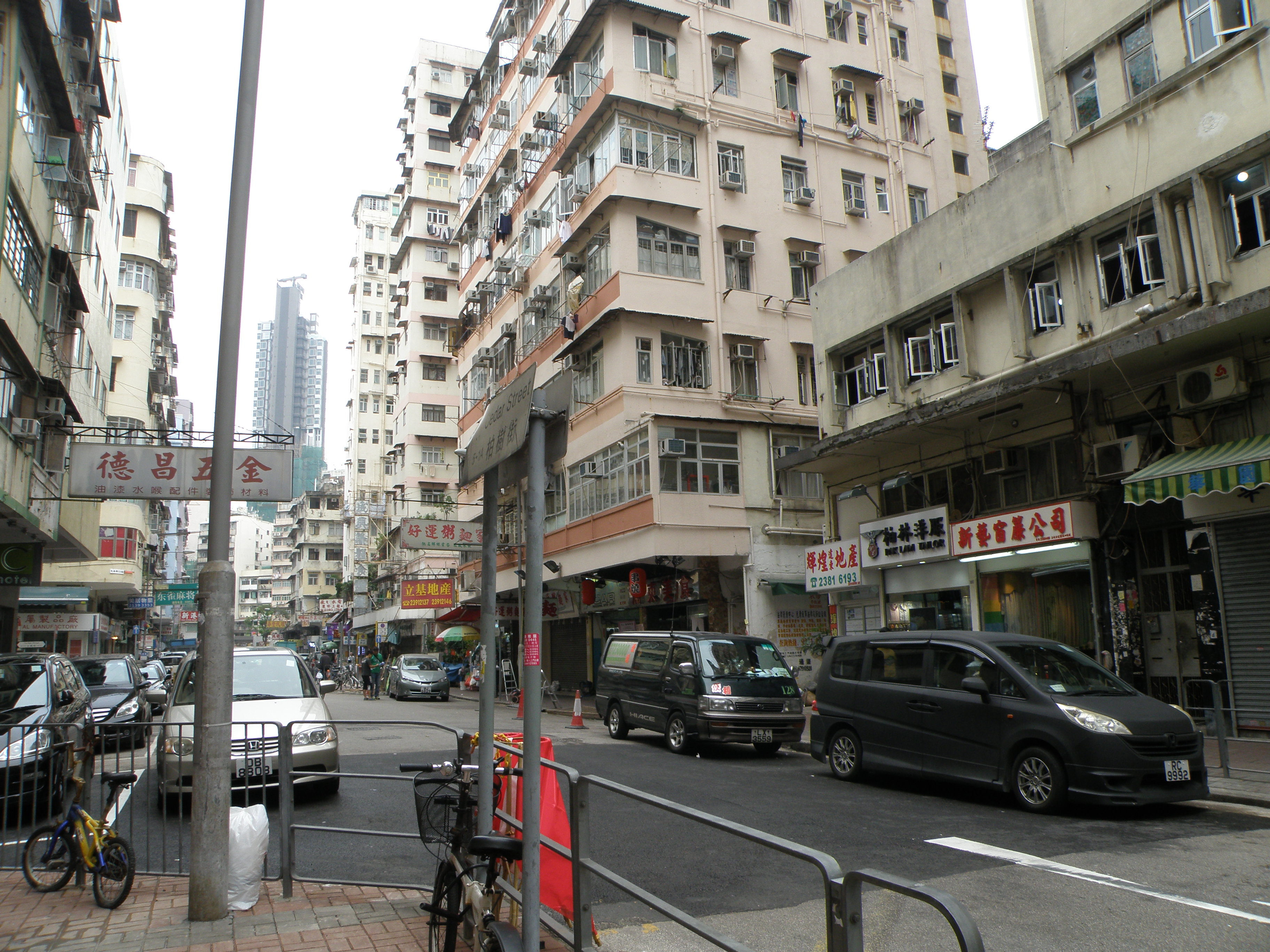 Cedar Street in Prince Edward, Hong Kong.